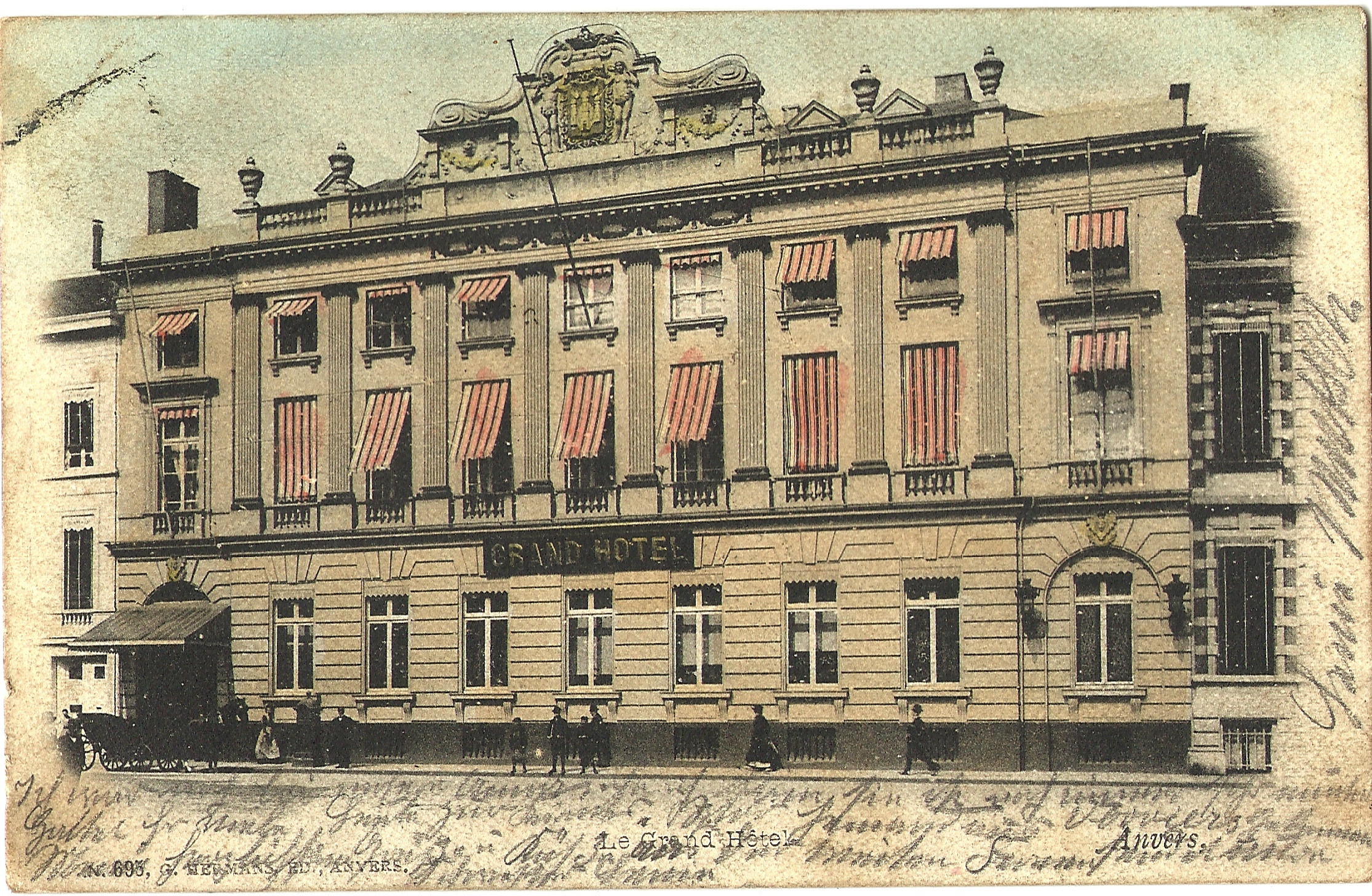 Exterior of Grand Hôtel d'Anvers. Current location of DE Studio, Antwerp.